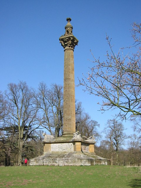 The Monument to Coke of Holkham A fine column monument to this famous agricultural pioneer erected by his tenants and friends after his death.